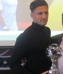 Makysm Kowal in 2019